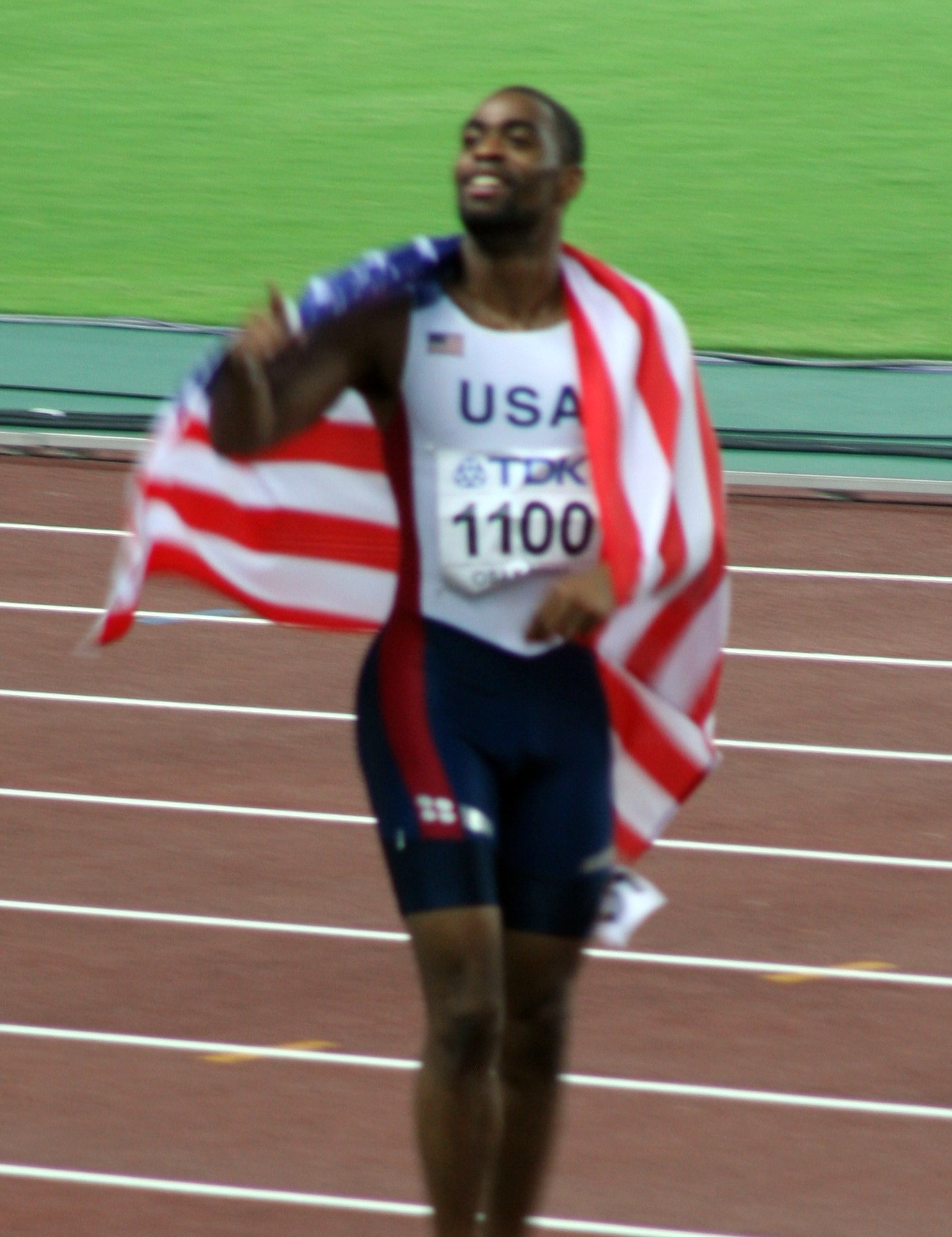 World Athletics Championships 2007 in Osaka - 100 metres winner Tyson Gay